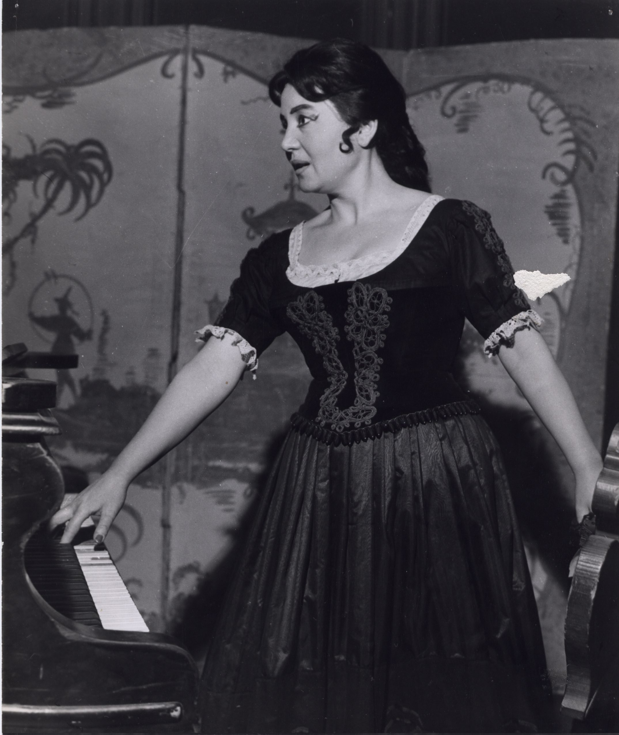 The french mezzo soprano Isabelle Andreani in Rosina's Barber from Sevilla